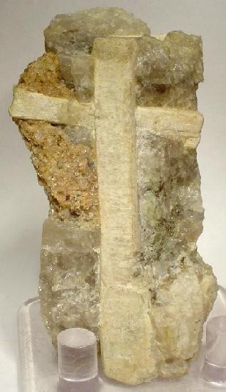 Meionite, Quartz Locality: Bolton Lime Quarries (Bolton quarry; Whitcomb quarry; Hildreth quarry), Bolton, Worcester County, Massachusetts, USA (Locality at ) Meionite (scapolite) crystals in a quartz matrix. 7.2 x 4.0 x 3.0 cm The tips of the scapolite crystals are cleaved, but it certainly does not detract from the dramatic effect of this scapolite "cross". The piece comes with an old Schortmann"s label. Ex Richard Hauck Collection.